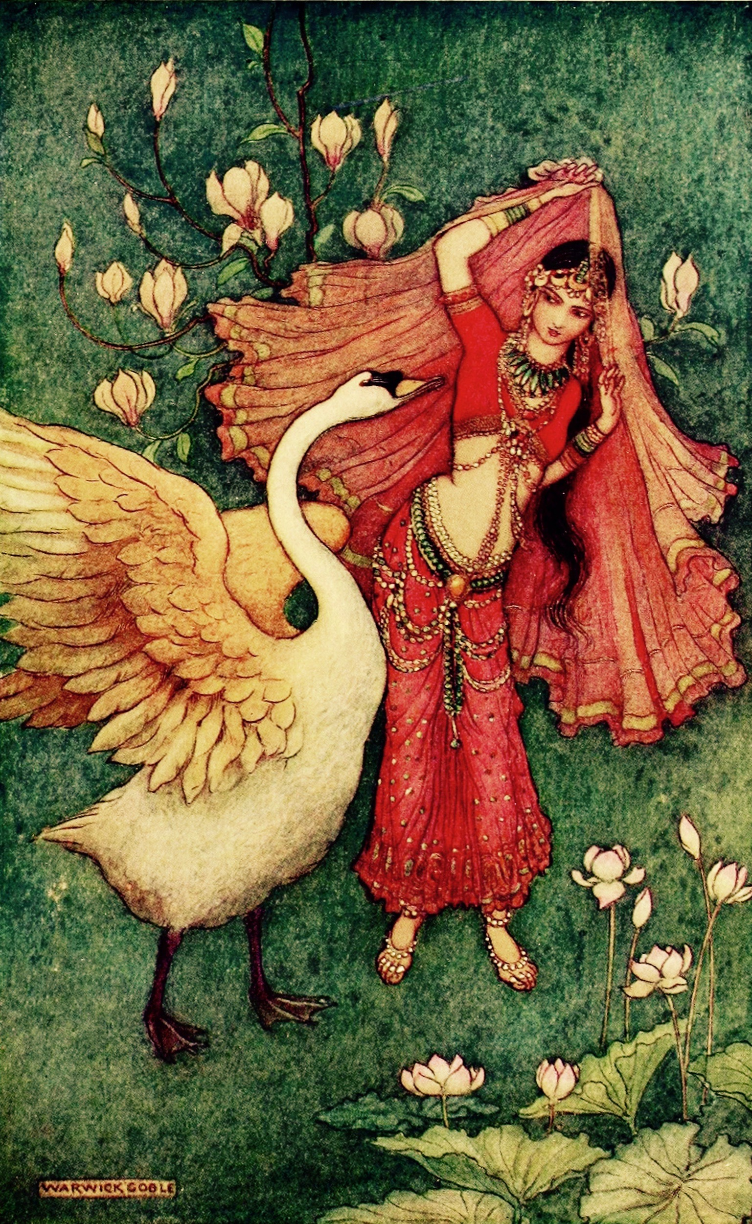 Author: Mackenzie, Donald Alexander, 1873-1936; Goble, Warwick Subject: Mythology, Hindu; Legends Publisher: London : Gresham Language: English Digitizing sponsor: Boston Library Consortium Member Libraries Book contributor: University of Connecticut Libraries Collection: uconn_libraries; blc; americana Full catalog record: MARCXML [Open Library icon]This book has an editable web page on Open Library.